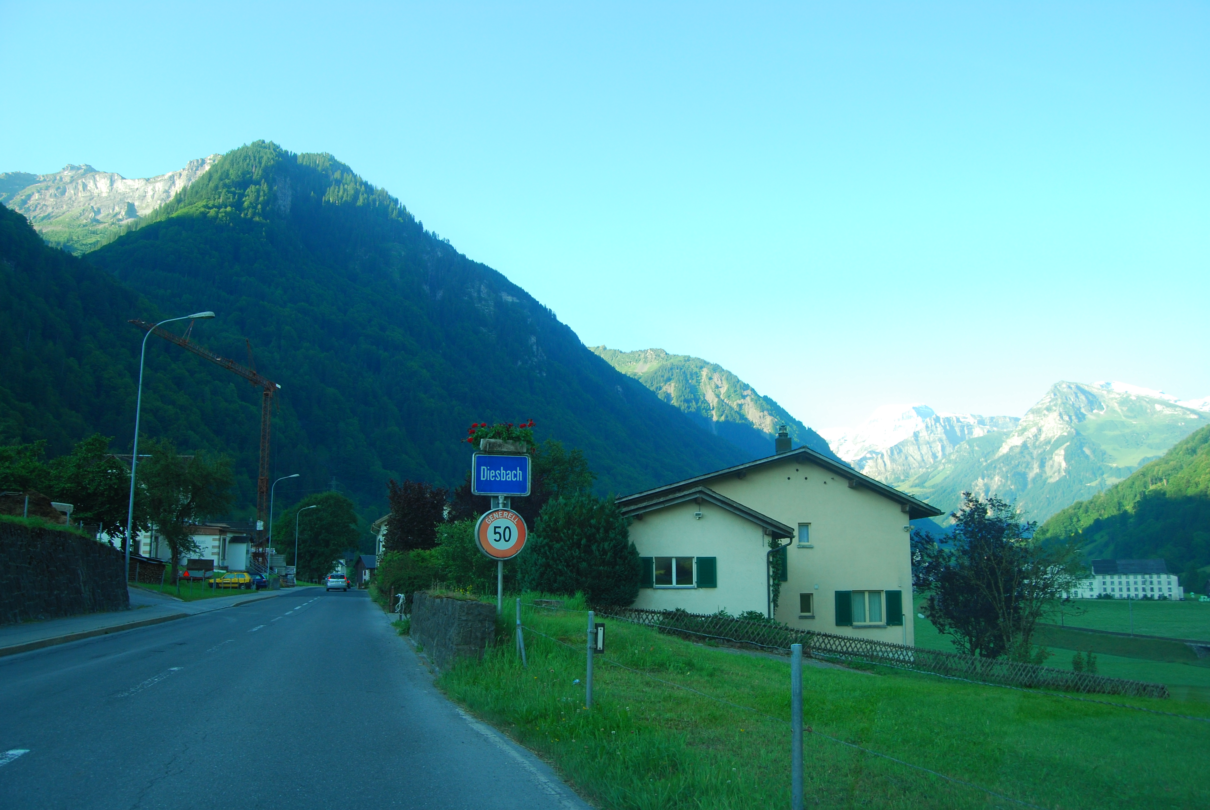 Village entry Diesbach, municipality of Luchsingen, canton of Glarus, Switzerland